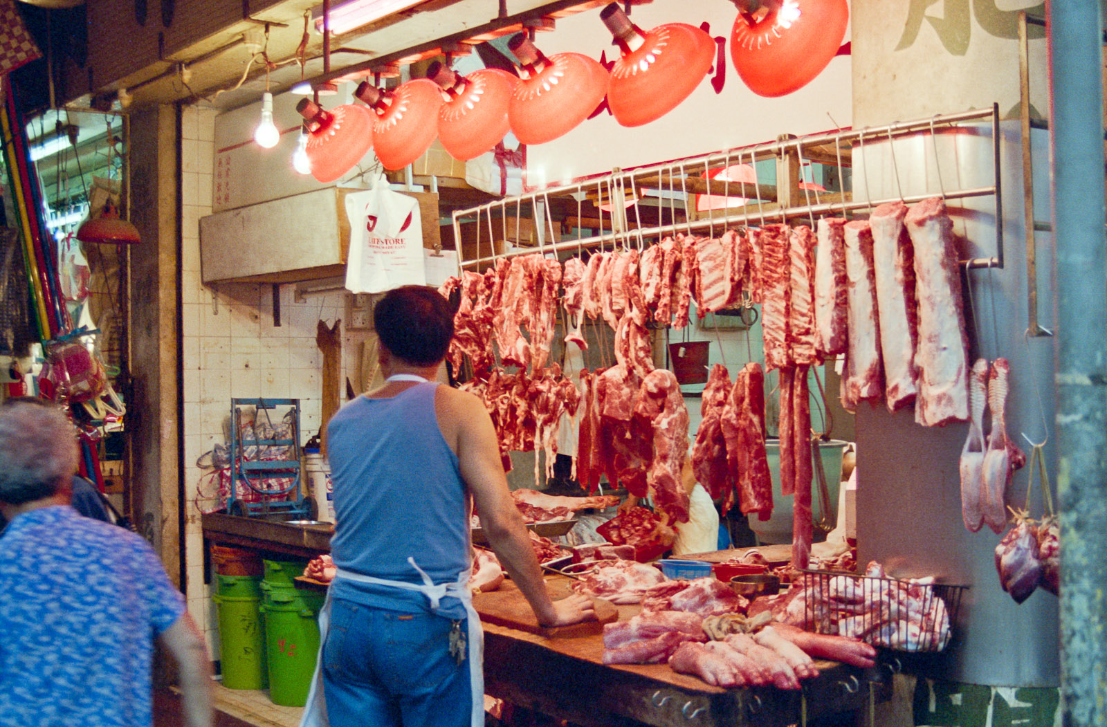 Pork Stall - Street Market (Reclamation St)